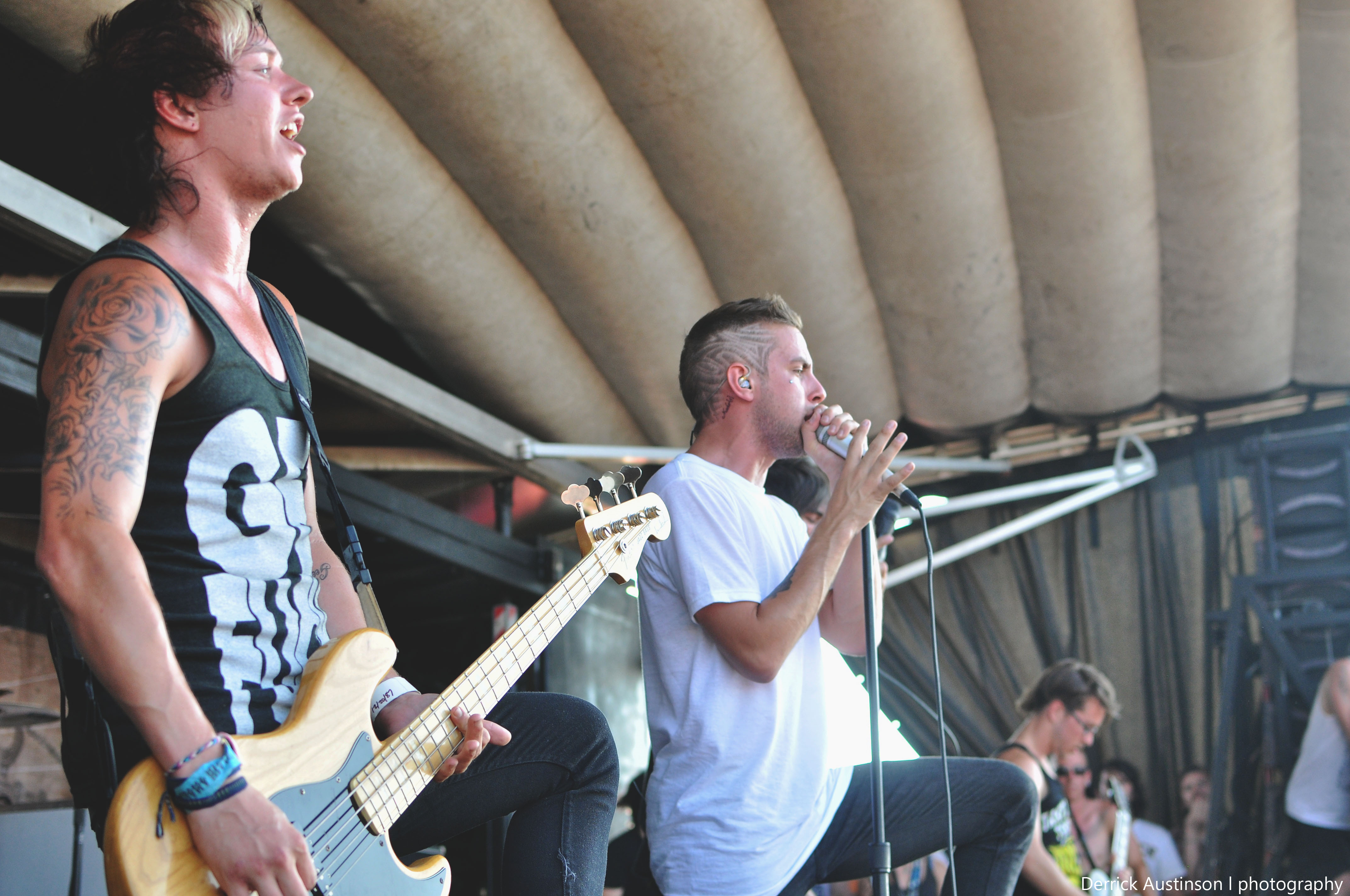 American band Woe, Is Me live in 2011